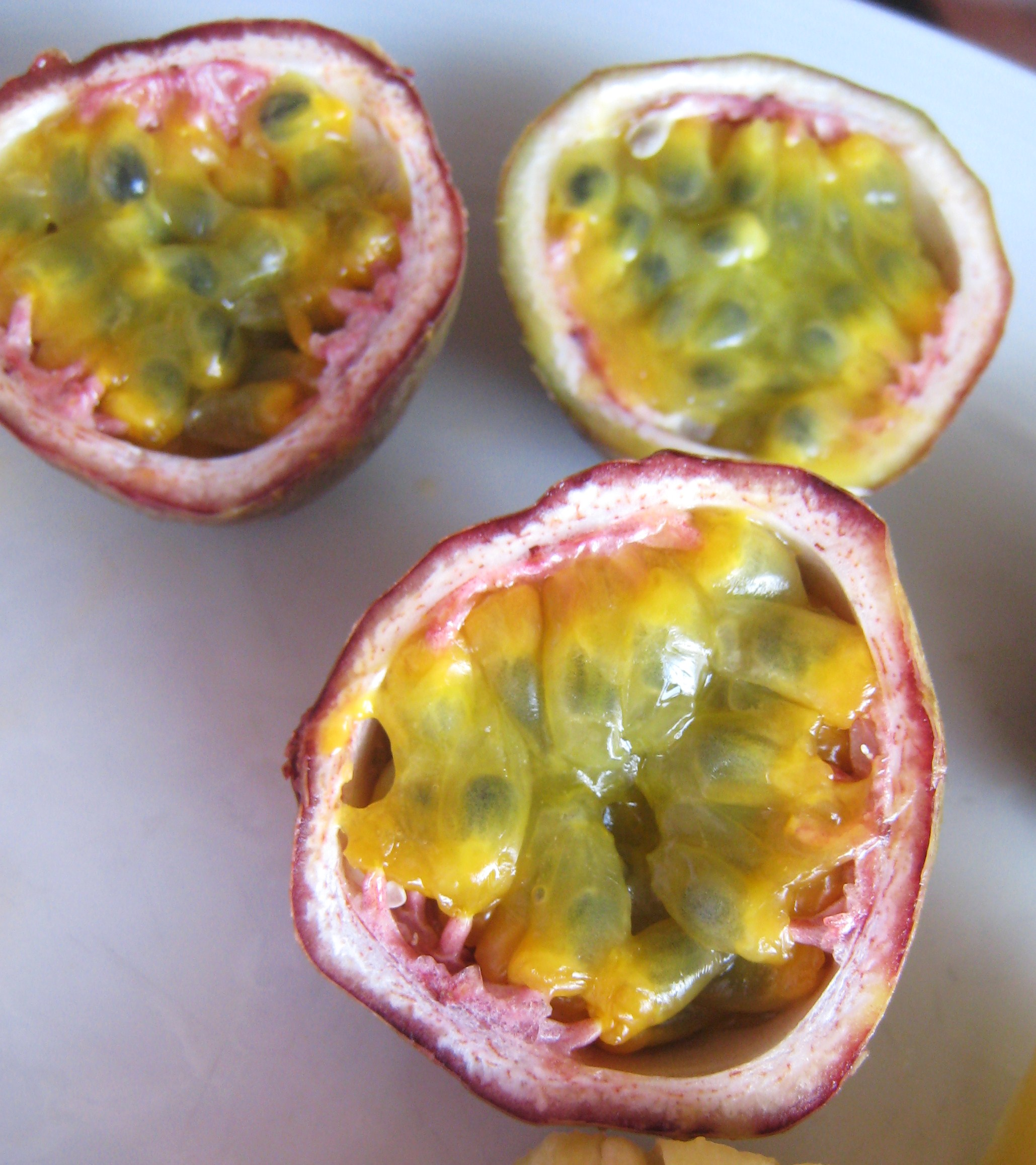 Maldivian passion fruits.